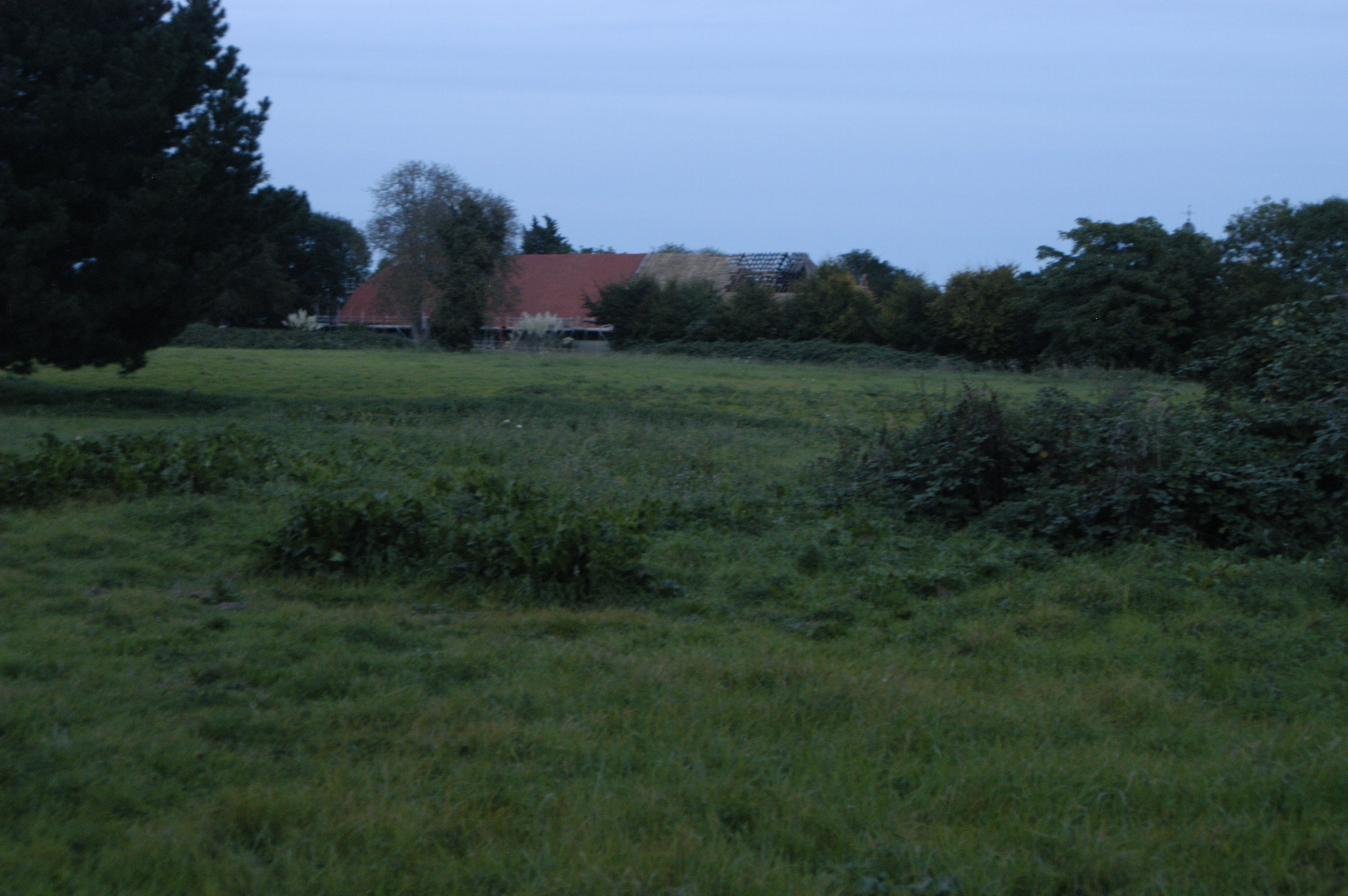 Digital photo by R. de Salis (me, Rodolph (talk) 21:13, 18 July 2015 (UTC)) of Harmondsworth Great Barn, Middlesex, UK, from the south-south-west, at dusk, October 2014.